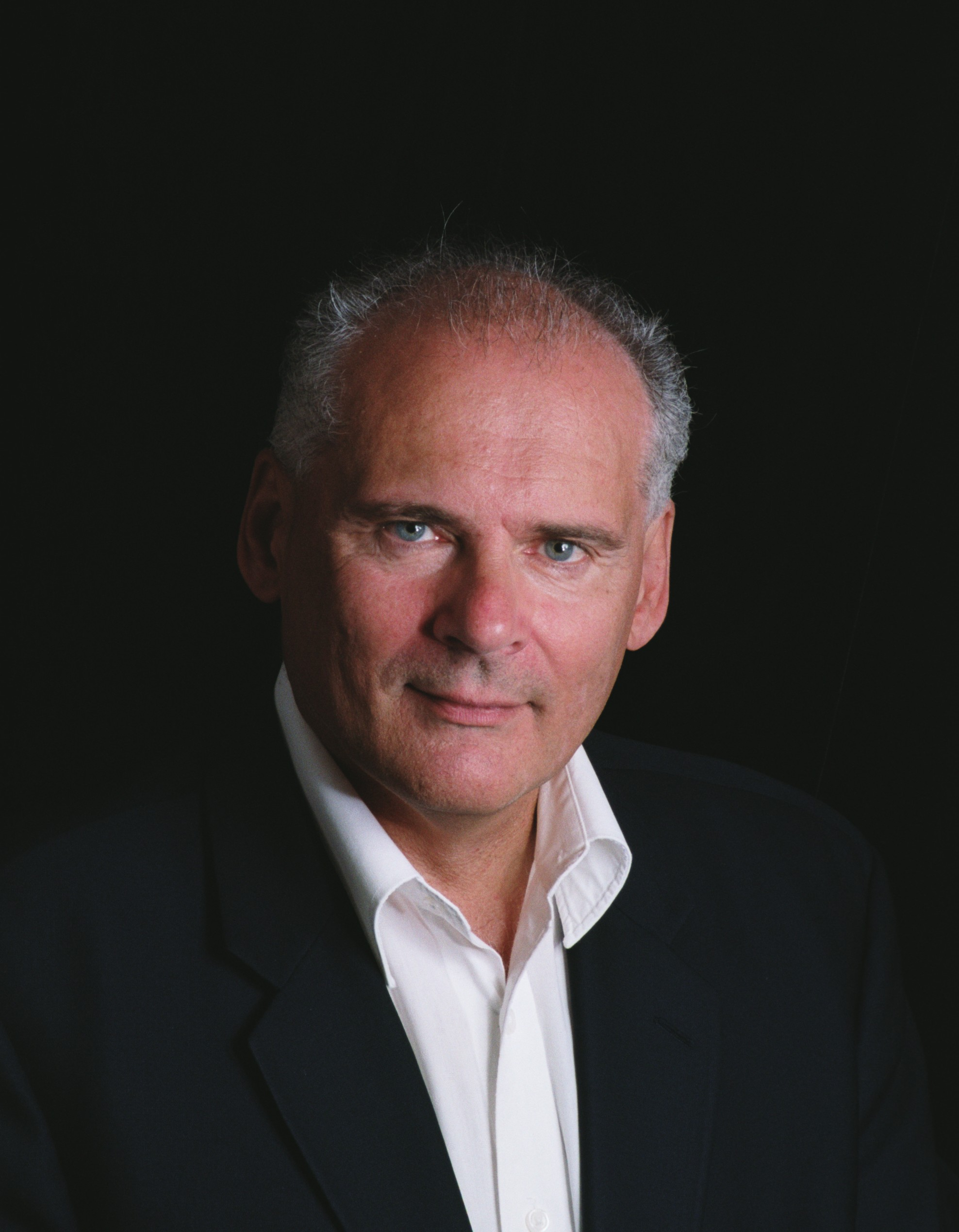 This is a photo of the Canadian classical pianist, author and professor Yaroslav Senyshyn ('Slava'). Ownership has been given to Sn0fl4ke.